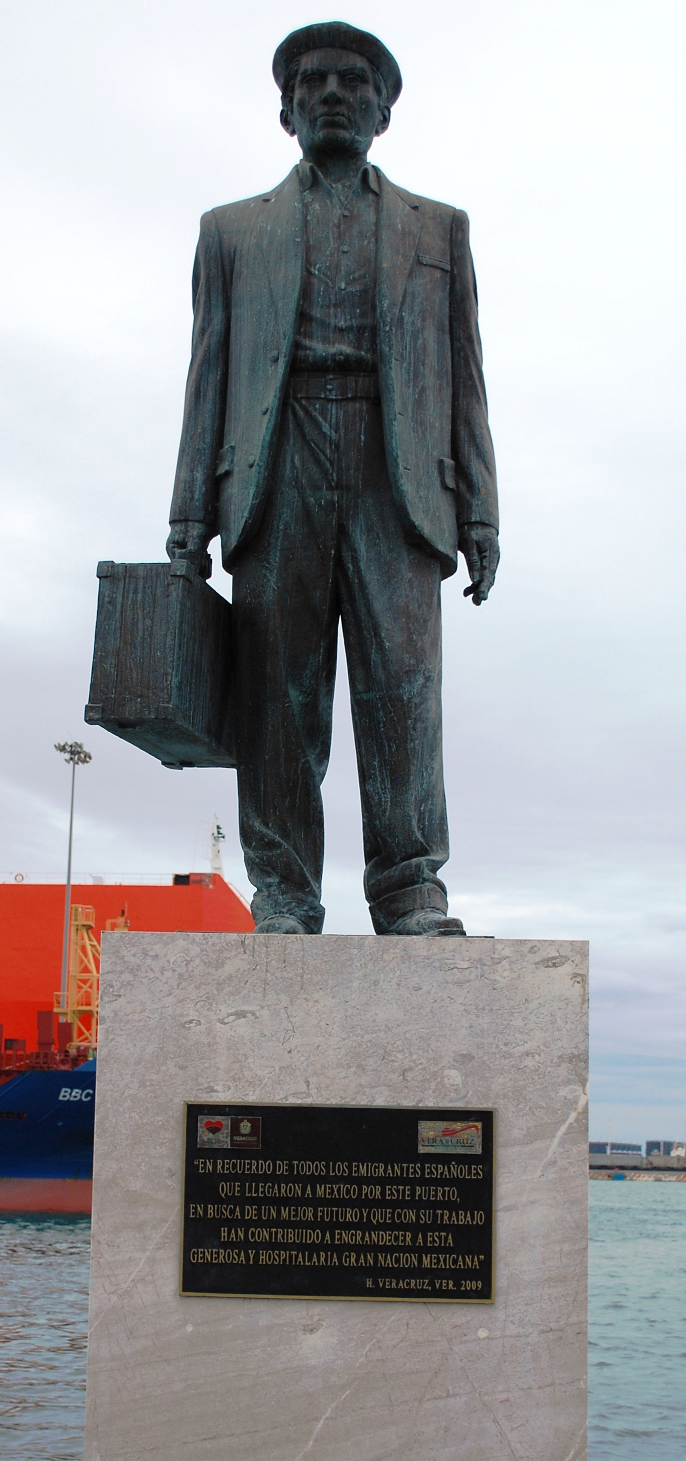 Statue to Spanish exiles who came to Mexico after the Spanish Civil War. Author unknown.